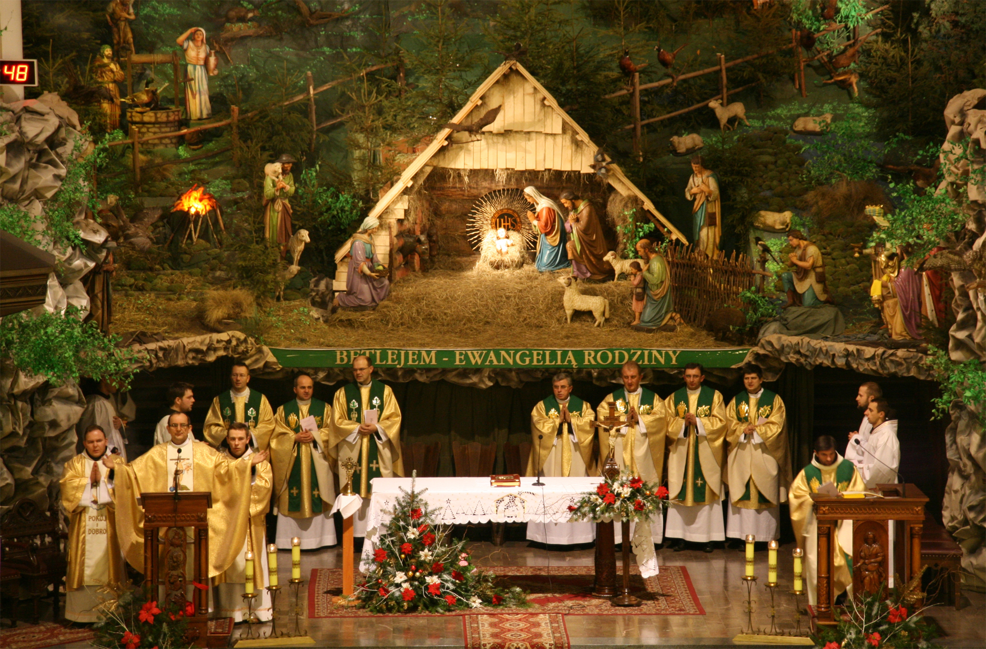 Crib in Katowice Panewniki, Poland (2006, Mass in the front of the manger)